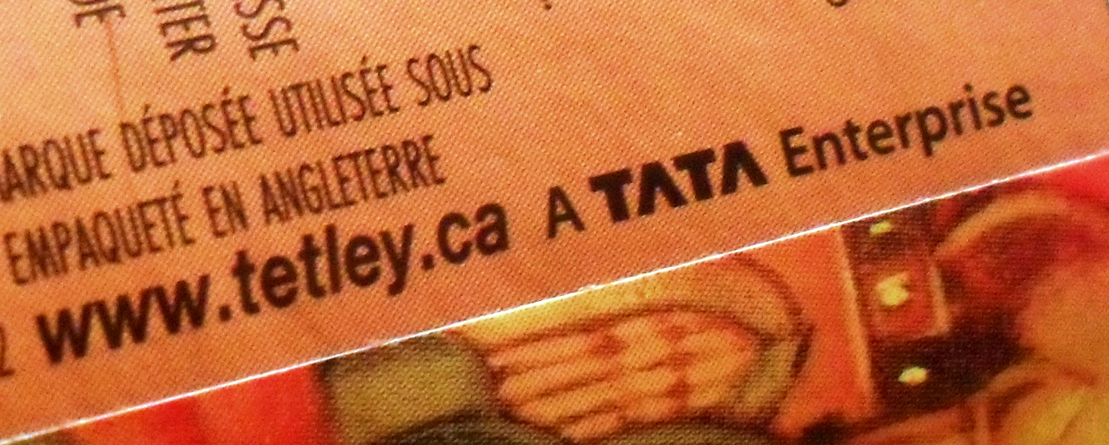 Tetley owned by Tata on a tea can